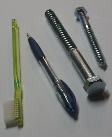 A photograph showing two lag screws, also called lag bolts. The pen and the toothbrush are shown for scale. These particular lag screws are a half-inch-by-6-inch and a 3/8-inch-by-4-inch, both with hex heads (that is, external hex) and made from steel with a bright zinc coating (electroplated galvanization) for corrosion resistance. Dull gray coating with hot-dip galvanization is another common coating. The heads are cold-formed in a die, and the threads are rolled in another die. There is no machining (metalcutting) needed. See also File:Lag screws aka lag bolts 002.png.